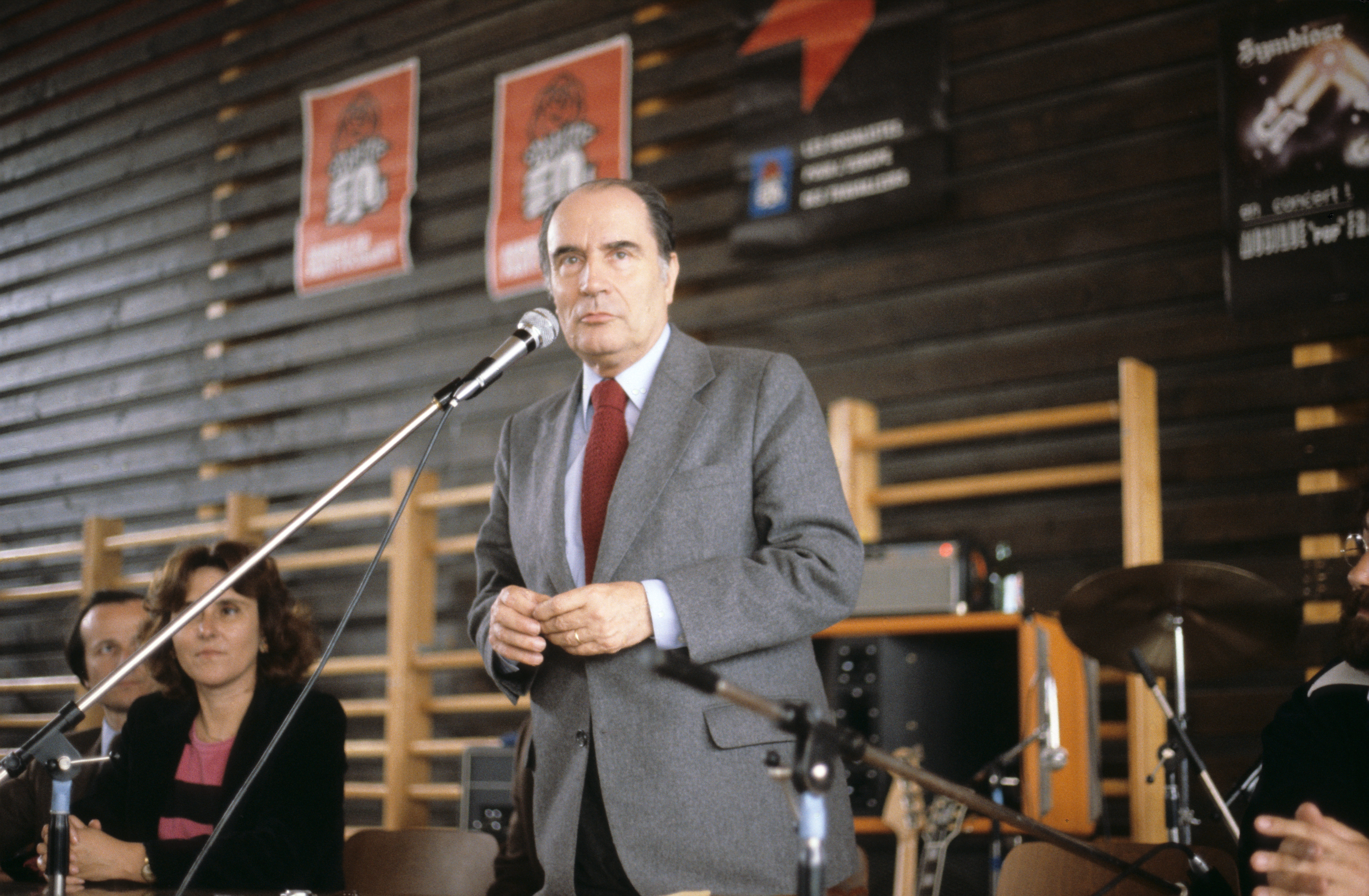 Strasbourg-1979-05-06